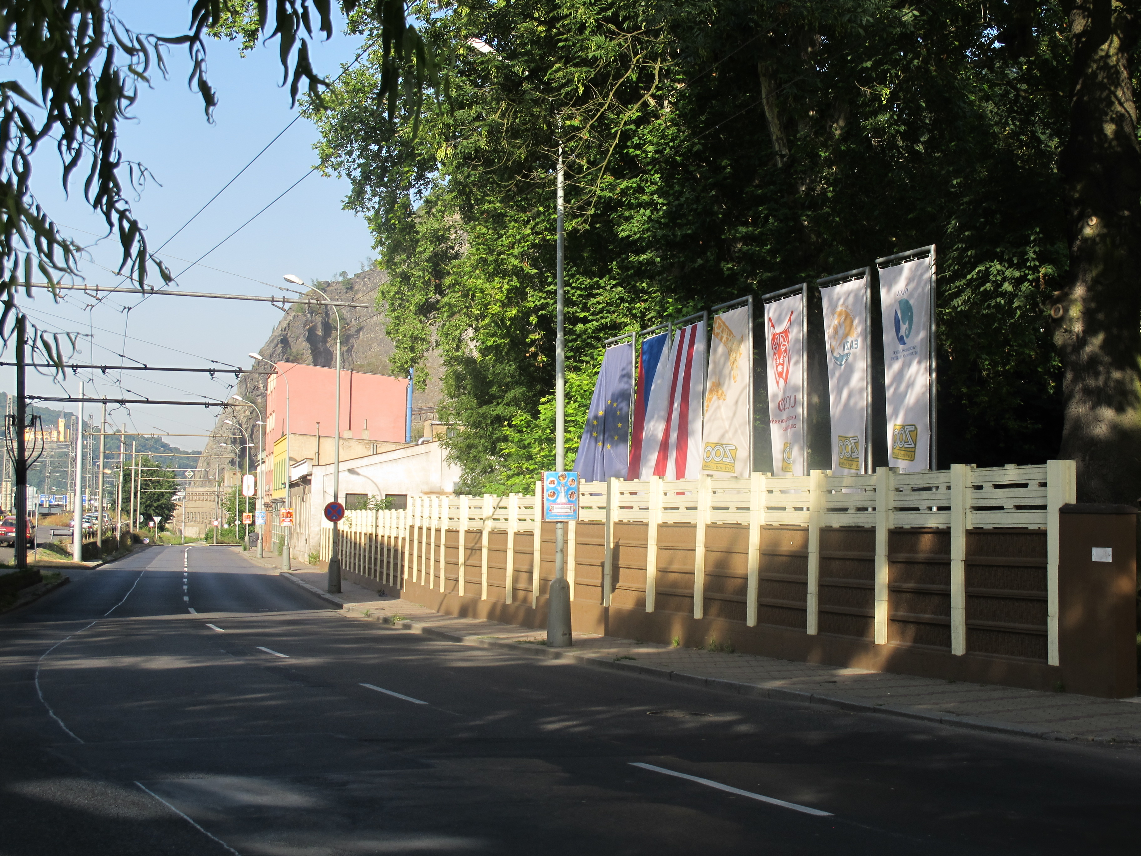 Fence of Ústí nad Labem Zoo on Drážďanská street.